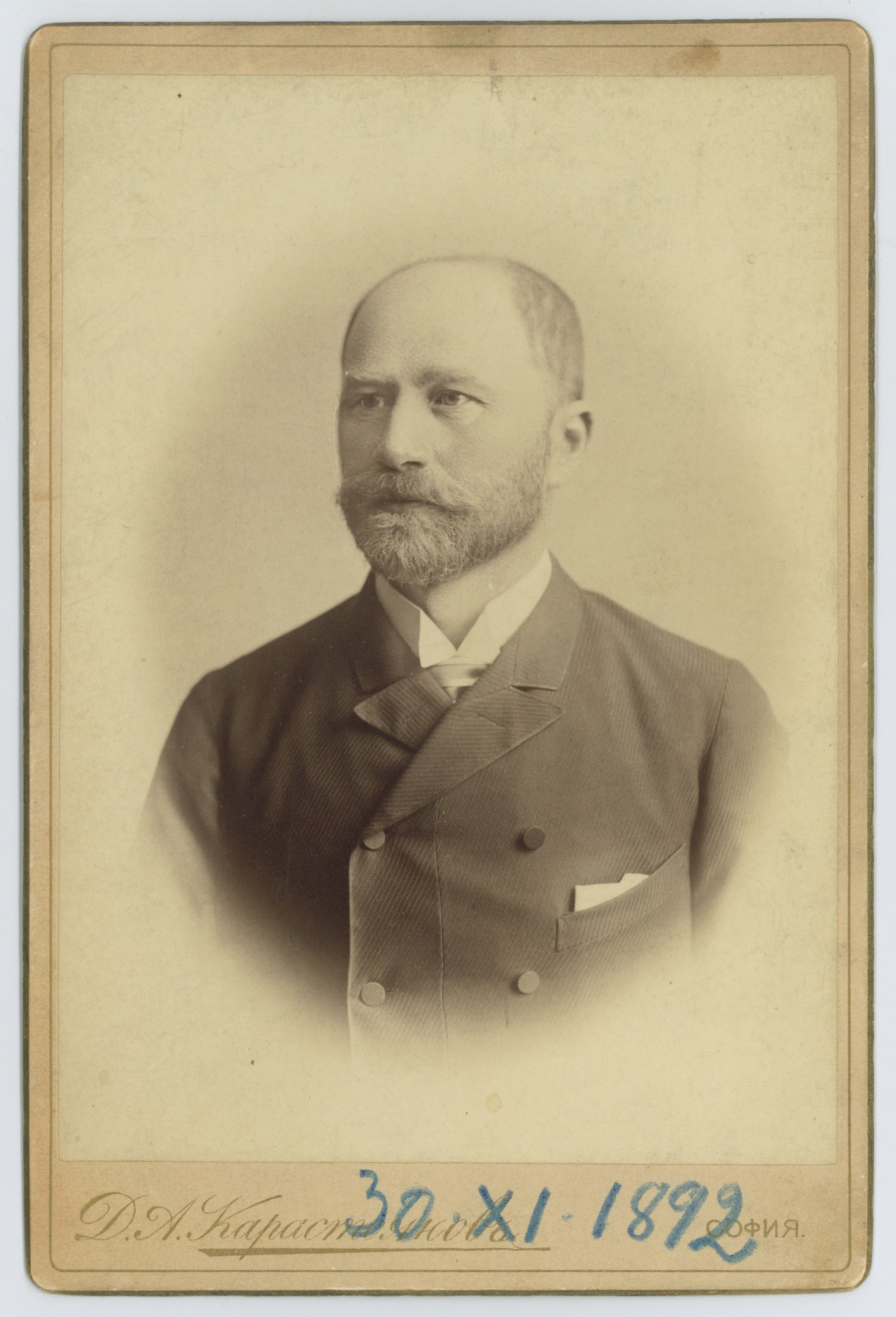 Studio portrait of Dimitar Agura (1849-1911)